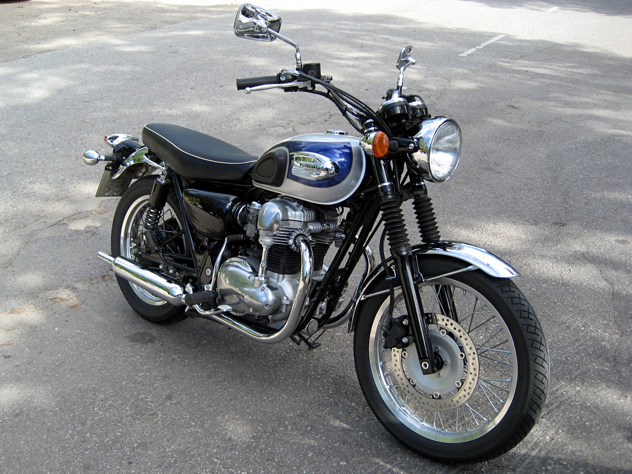 Kawasaki W650 (year 2000), a retro motorcycle reminiscent of 60's Triumph Bonneville. The motorcycle has a parallel twin engine (675cc, 50 hp), weighs 212 kg and has a top speed of about 155 km/h.